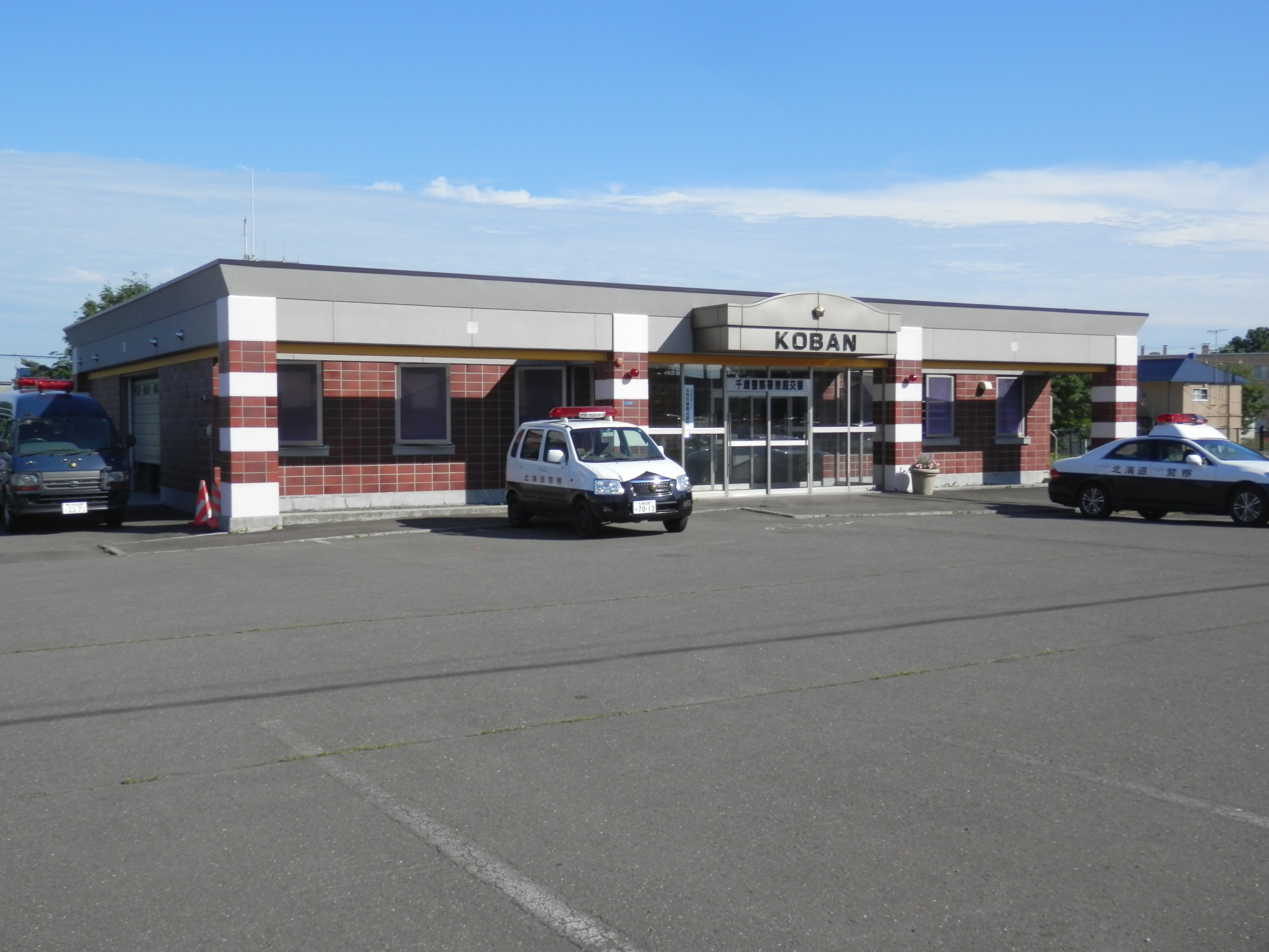 Eniwa Koban police box, a branch of the Chitose Police Office in Eniwa, Hokkaido